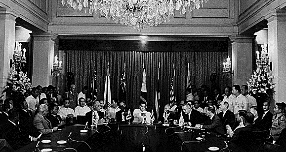 Leaders of the Southeast Asia Treaty Organization (SEATO) in a conference at Manila.